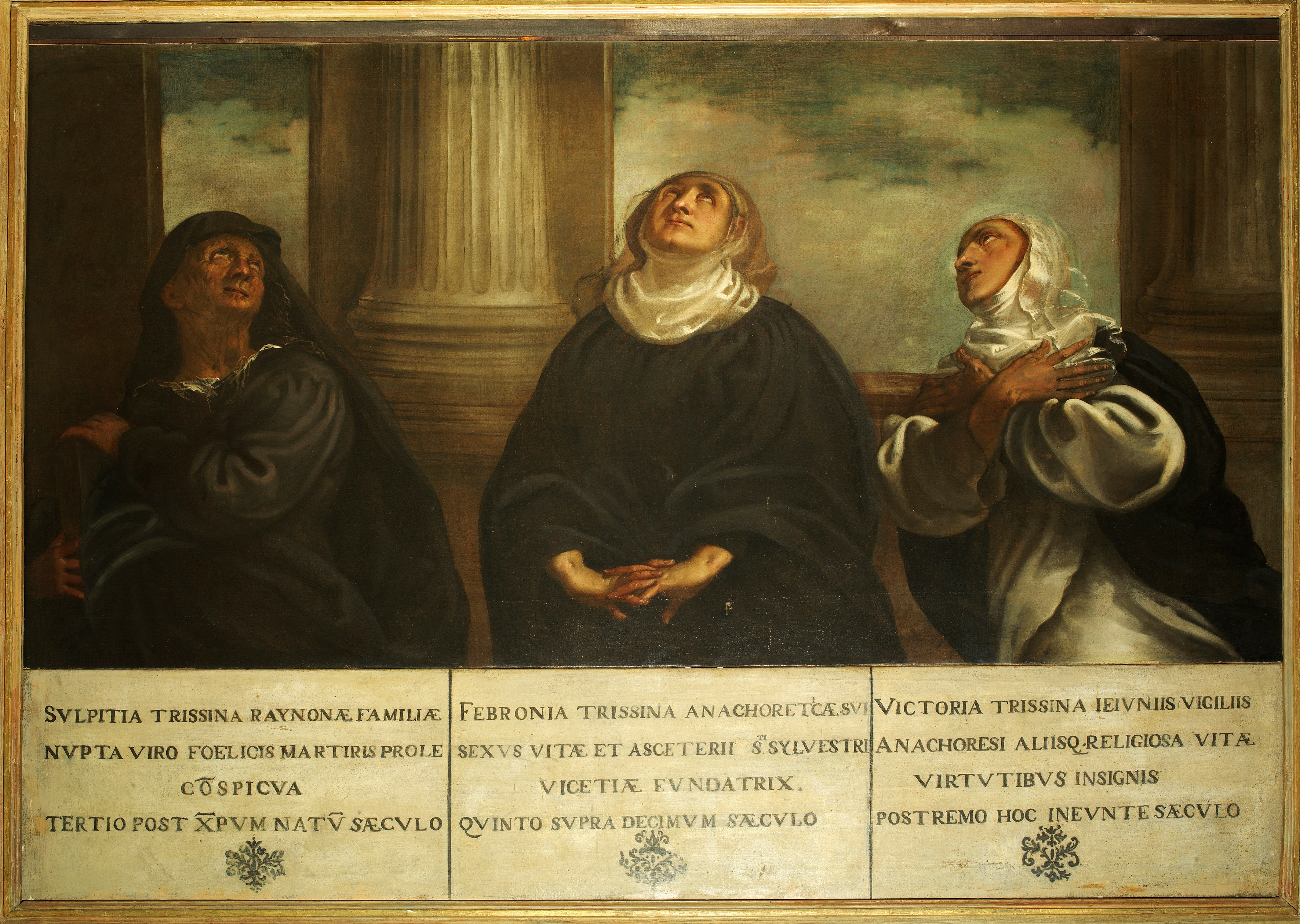 The Three Venerables of the Trissino House: Sulpizia, Febronia e Vittoria